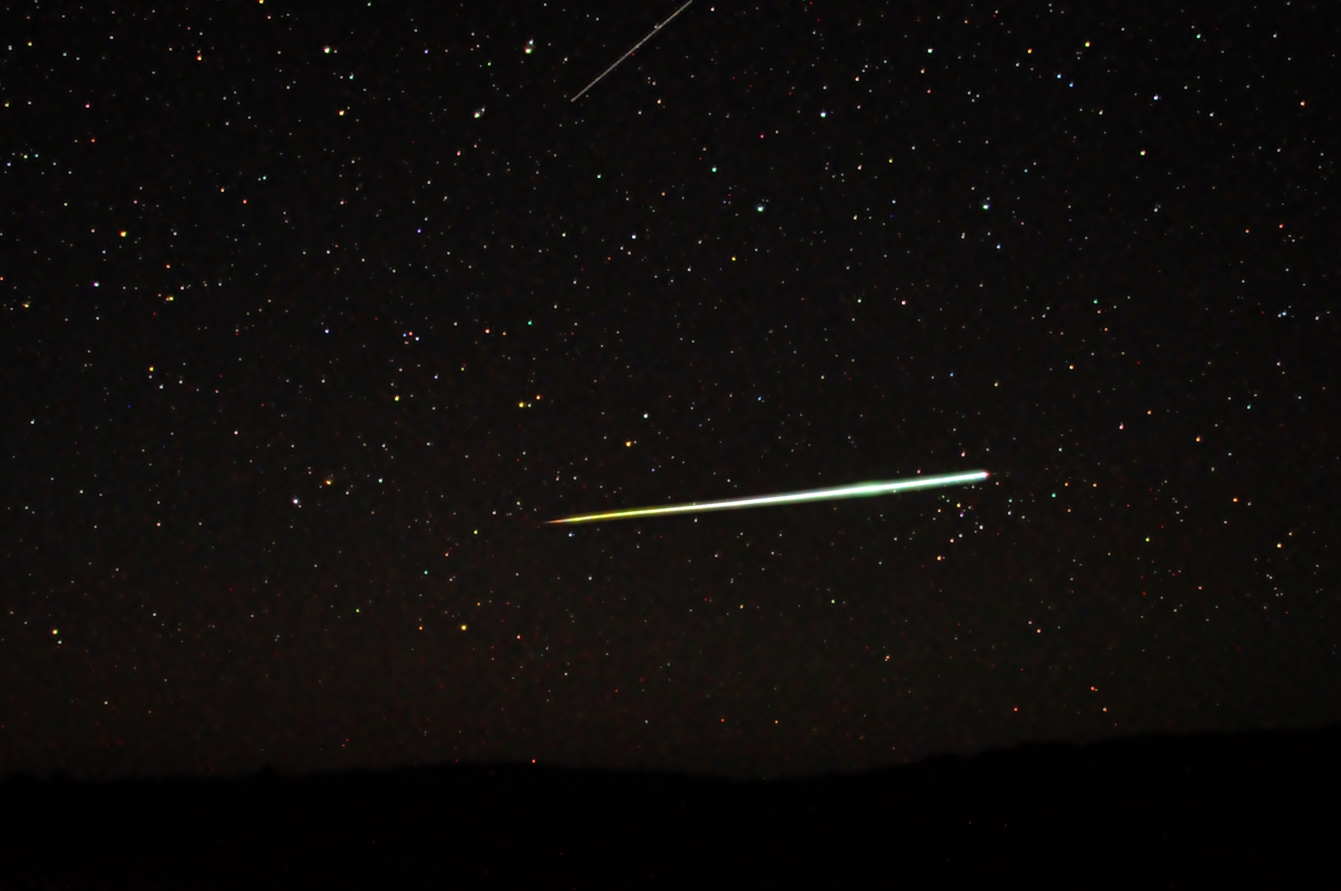 This bolide appeared over the Flinders Ranges, in the South Australian desert on the evening of the 24th April 2011. When I first noticed it, it was about as bright as the international space station (mag -4), but moving much quicker. It suddenly flared up very brightly, then started to fragment. There where about a dozen fragments in total, all of them trailing very smokey tales. By this point it was bright enough to throw shadows, and maybe just off the brightness of the full moon. All the fragments soon faded, but an ionized trail lasted in the sky for about ten seconds afterwards. The bolide itself lasted about seven seconds from the point I noticed it. We waited for a sonic boom, but there wasn't any. I was just in the process of setting my camera up for some star scape photographs later in the night, and managed to turn my camera around and engage it quick enough to catch most of it. I missed the first 3-4 seconds because I have a two second timer on to steady the shot, but caught the majority of it, only missing a small portion well before fragmentation. Unfortunately I was using a high ISO so it's a bit noisy, however I feel this doesn't matter in this instance. It wasn't a Lyrid either because it traveled from roughly NE to W, where as Lyrids radiate from roughly north. This happened around 6:20pm Australian central standard time. I was about 10km south of a small town called Parachilna and my coordinates where -31.218,138.404